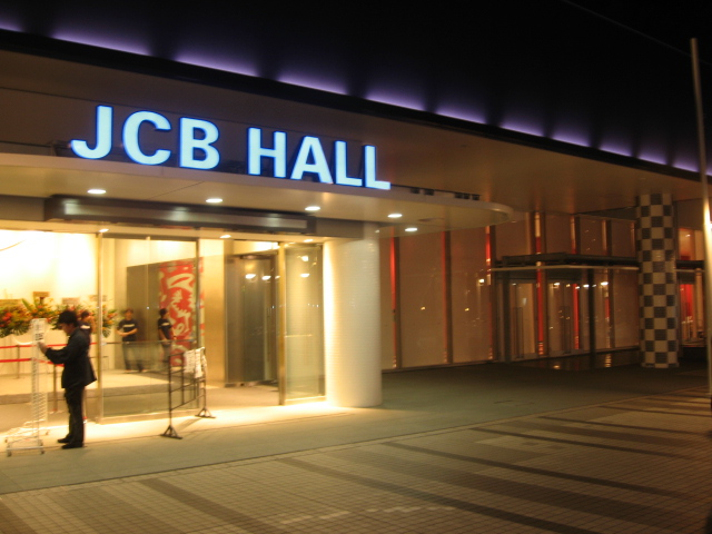 JCB Hall.